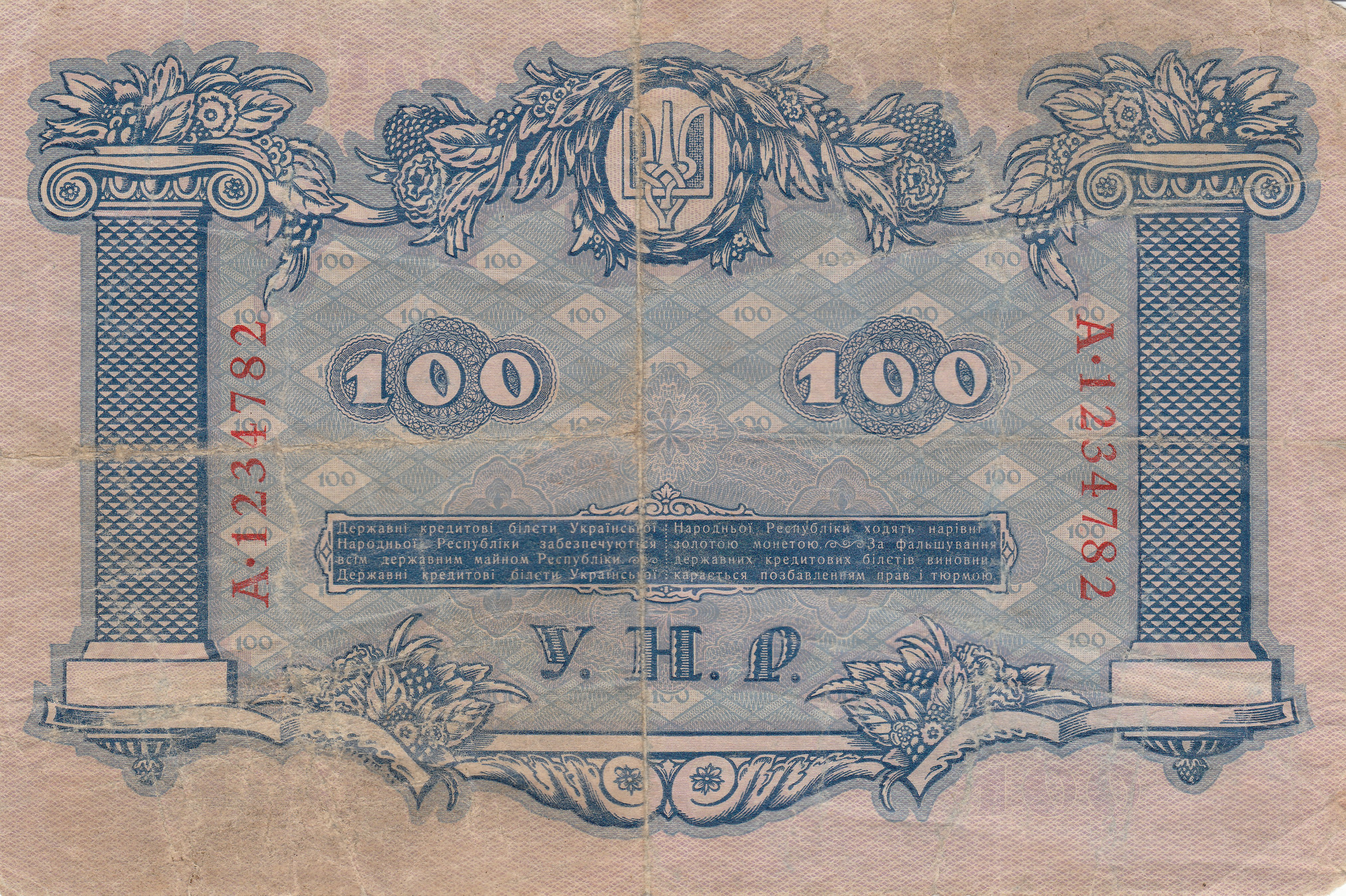 The reverse side of the 100 Hryvnia bank note of the Ukrainian People's Republic, 1918